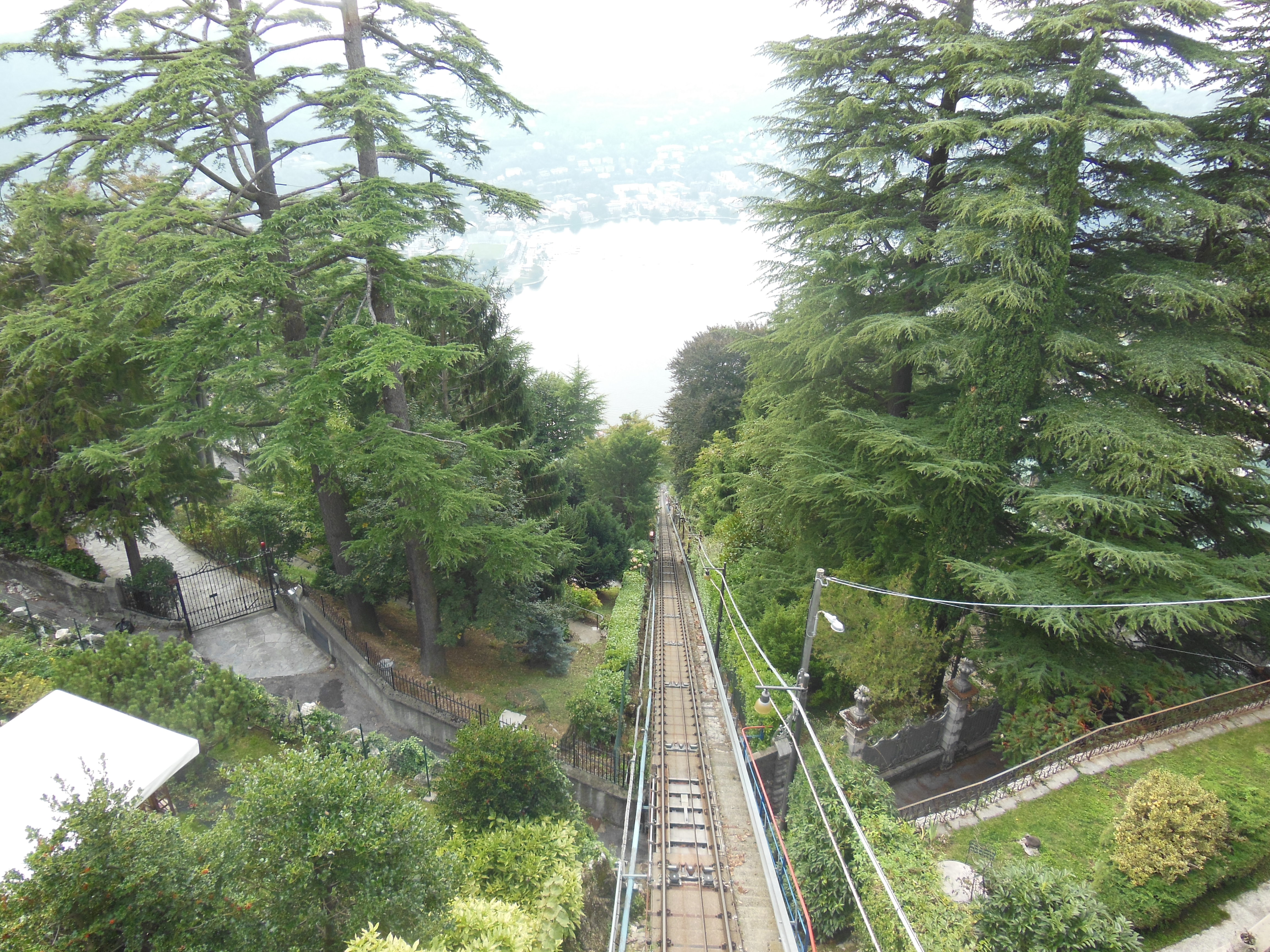 Looking down the line of the Como–Brunate funicular, from a road bridge just below the upper station. Lake Como and its far shore can just be seen. For more information, see the wikipedia article Como–Brunate funicular.